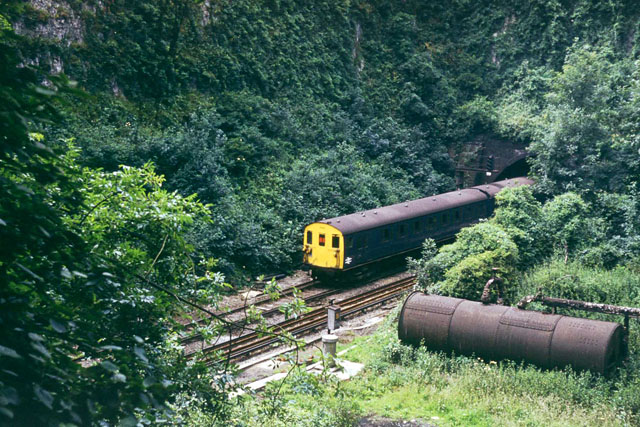 The gap in Higham Tunnel The original canal tunnel was continuous,but its great length put constraints on the traffic. Accordingly, a passing place was made at a point where there was a slight declivity above, by opening out a quarry from the surface. The canal tunnel was later converted to a rather awkward dual canal and single track railway partly running on the towpath, and then to double track railway only. The old passing place remains as a densely wooded quarry. The tail end of a London-bound train is seen, in 1975.